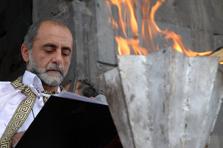 Hetan priest officiating ceremony at the Temple of Vahagn in Garni, Armenia.